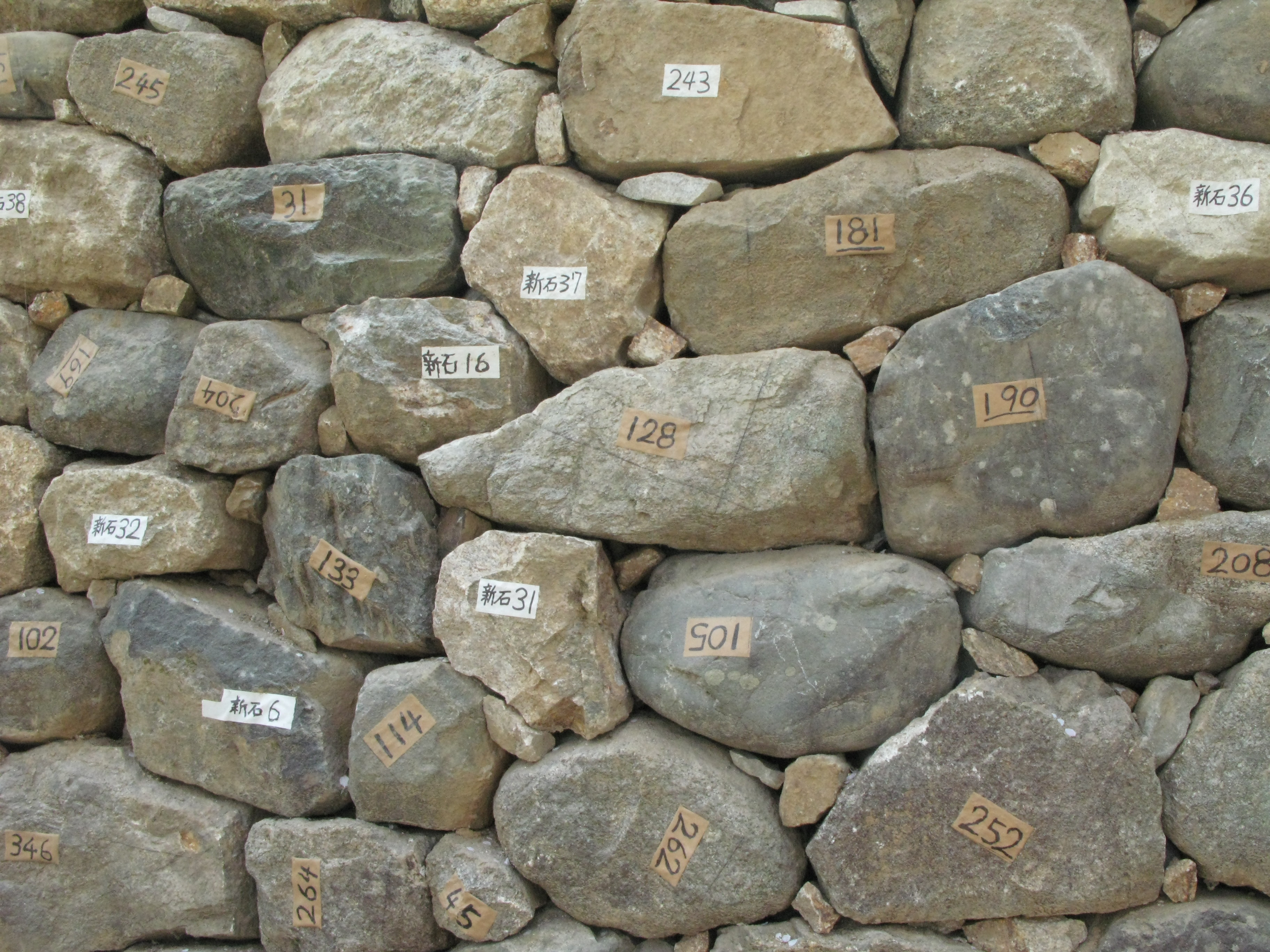 Restoration of the stone wall; write in a number At the time of the restoration of the stone wall, I place a packing tape on the surface of the stone for the wall, and write in a number every one building stone by a magic.